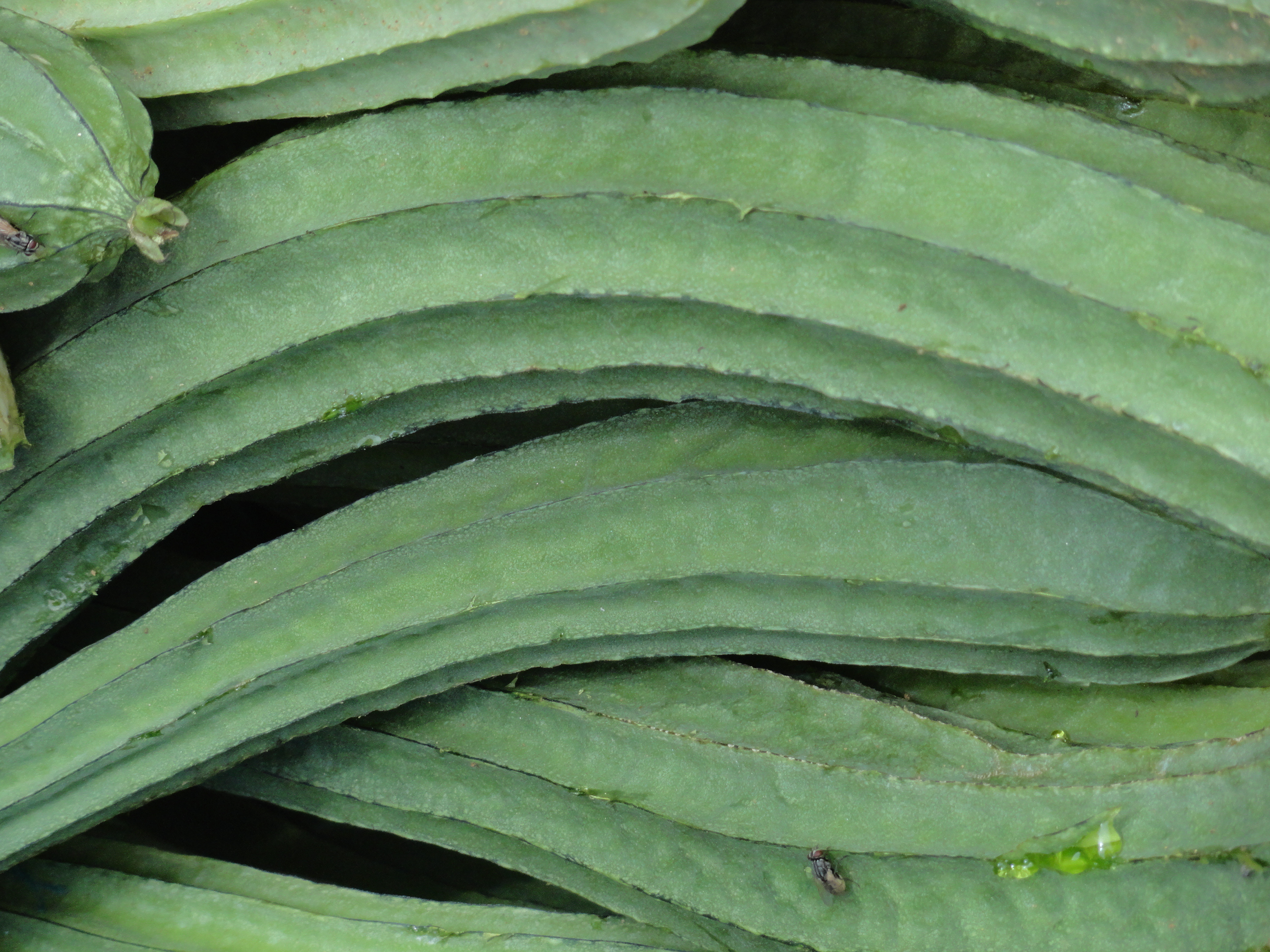 బీరకాయలు